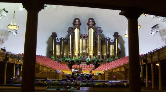 Interior of the Salt Lake Tabernacle of The Church of Jesus Christ of Latter-day Saints. The Salt Lake Tabernacle organ is very prominent at the center of the image.